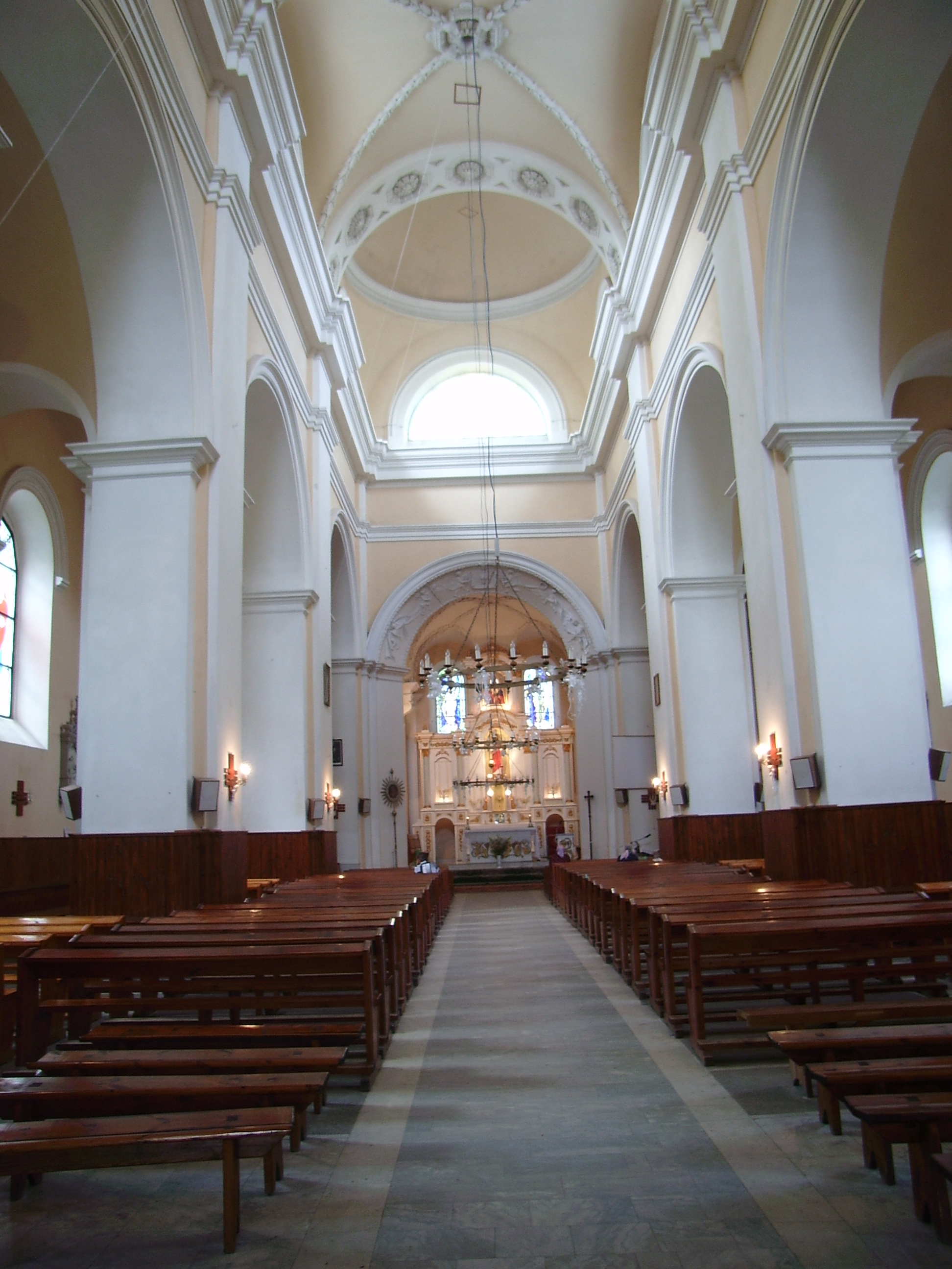 Беларуская (тарашкевіца): Мікалаеўскі касьцёл. г.п. Сьвір This is a photo of Belarusian heritage monument. Reference number: 612Г000454 ( WLM)